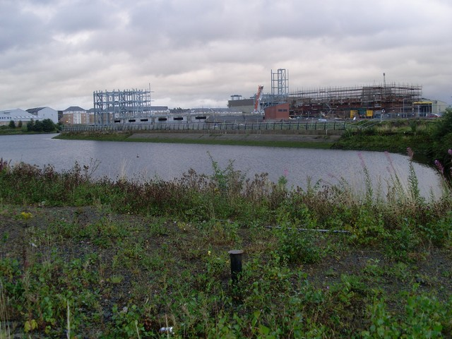 Basin at the Renfrew Ferry At the River Clyde.